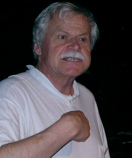 Vlasimil Hort at the press centre, Dortmunder Schachtage 2009, Photographer Gerhard Hund.